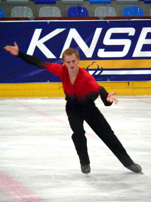 Samuli Tyyskä during his long program at the 2006 Junior Grand Prix event in The Hague, Netherlands